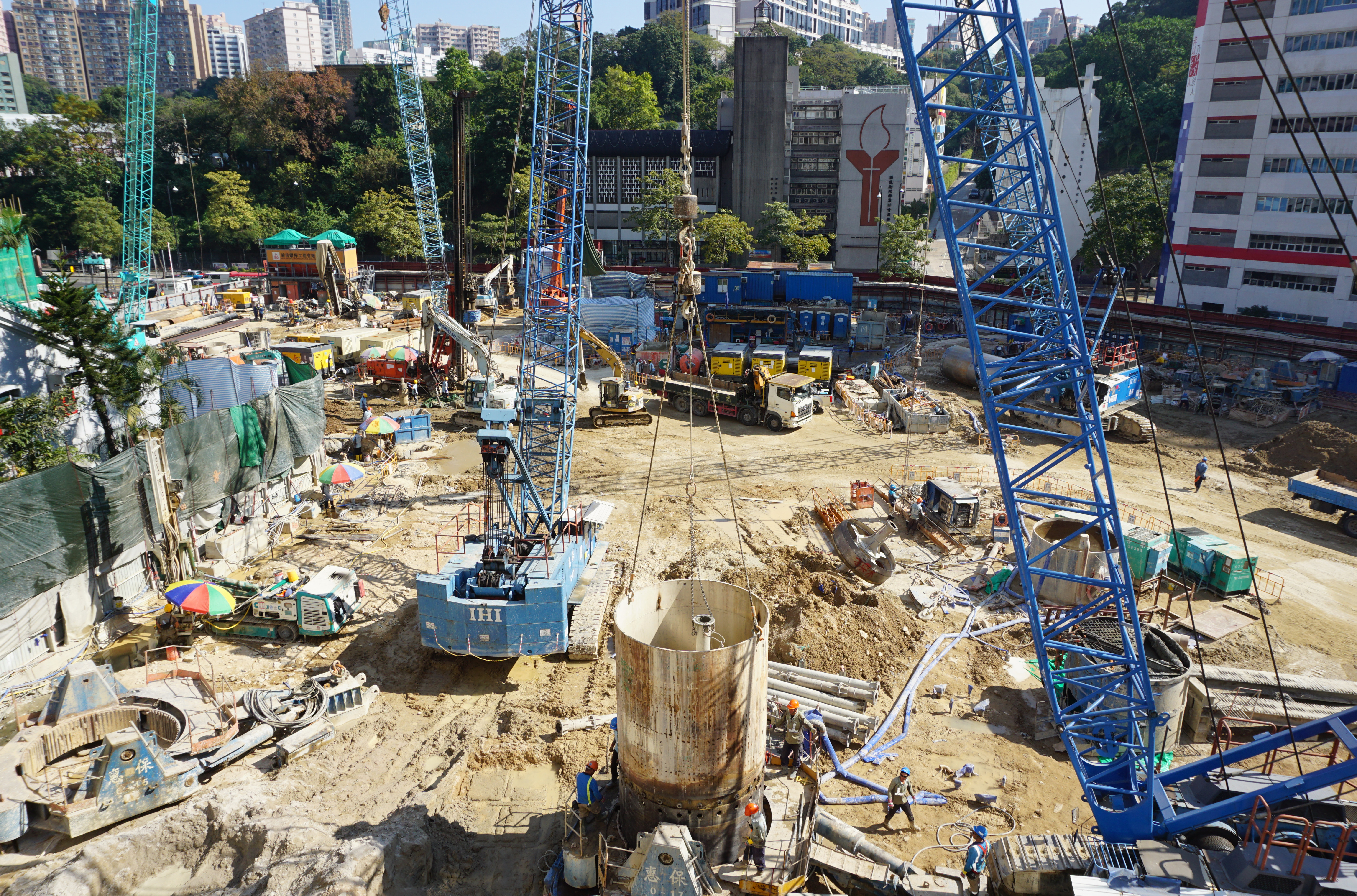 Kwong Wah Hospital in Yau Ma Tei, Hong Kong.